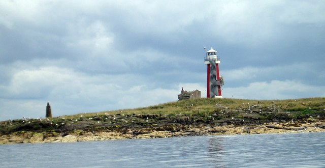 Lady Isle Pictured with the 3 man made structures visible from the sea. The island is a seabird sanctuary and landing is discouraged. 4th July 2009